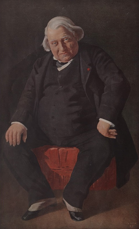 ""The Greatest of Fathers". Caricature of Ernest Renan, Vanity Fair, 5 October 1910.